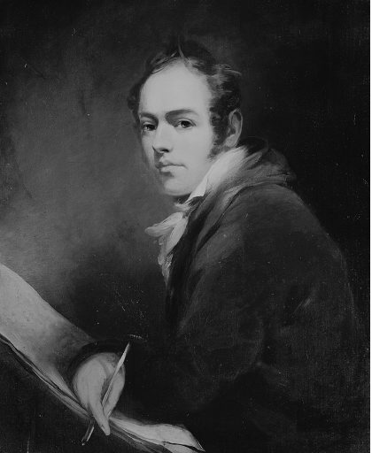 Sir Francis Legatt Chantrey (1782-1841)